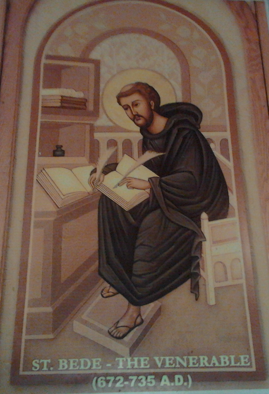 Photoed using Samsung Wave 525.